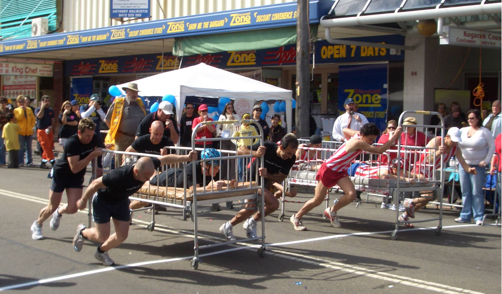 Kogarah bed race in Kogarah, Sydney, Australia.